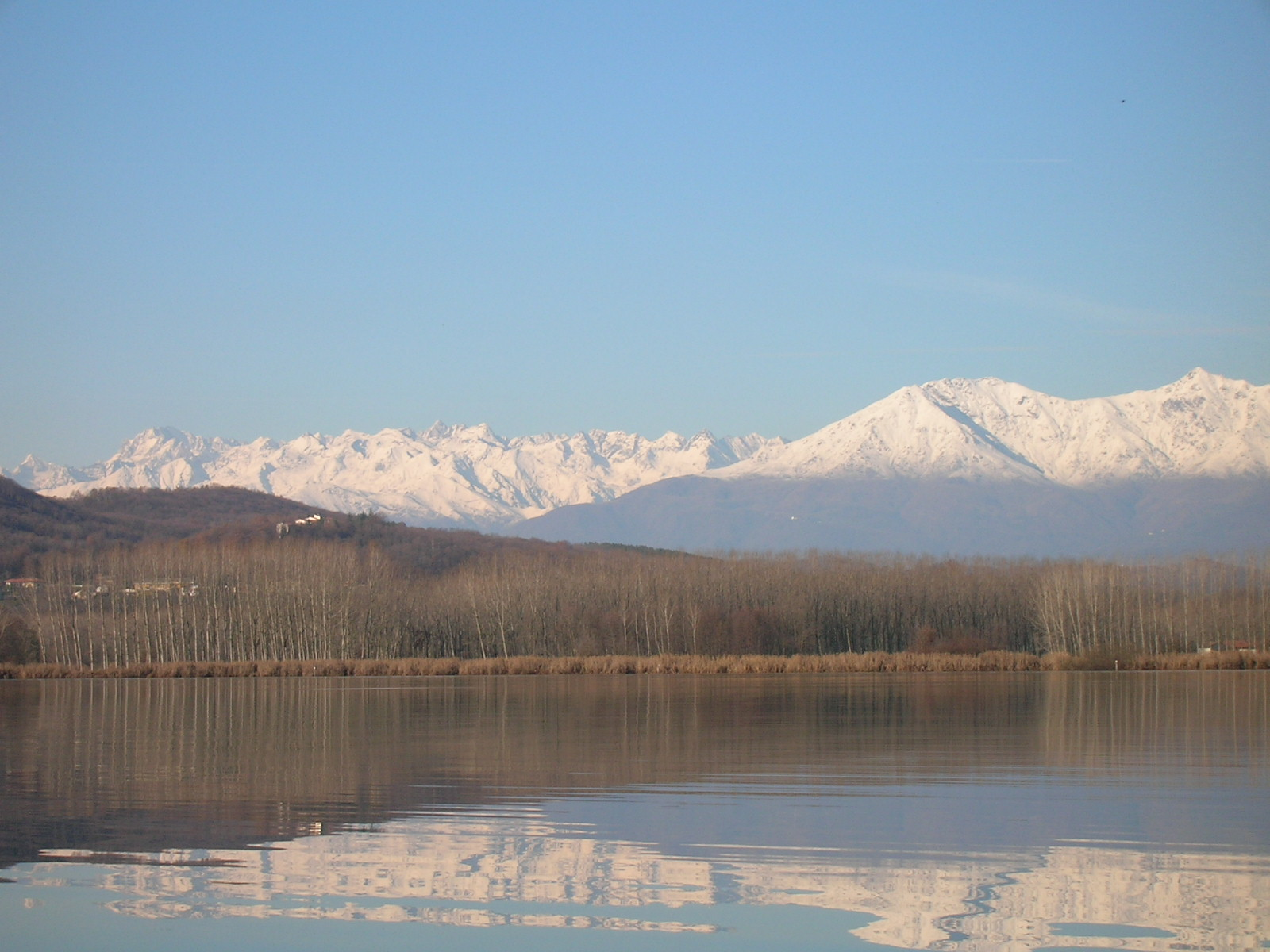 Tobia Simona, personal source, photo of the reflection of the snowy mountains into the Candia lake. Candia, February 2007